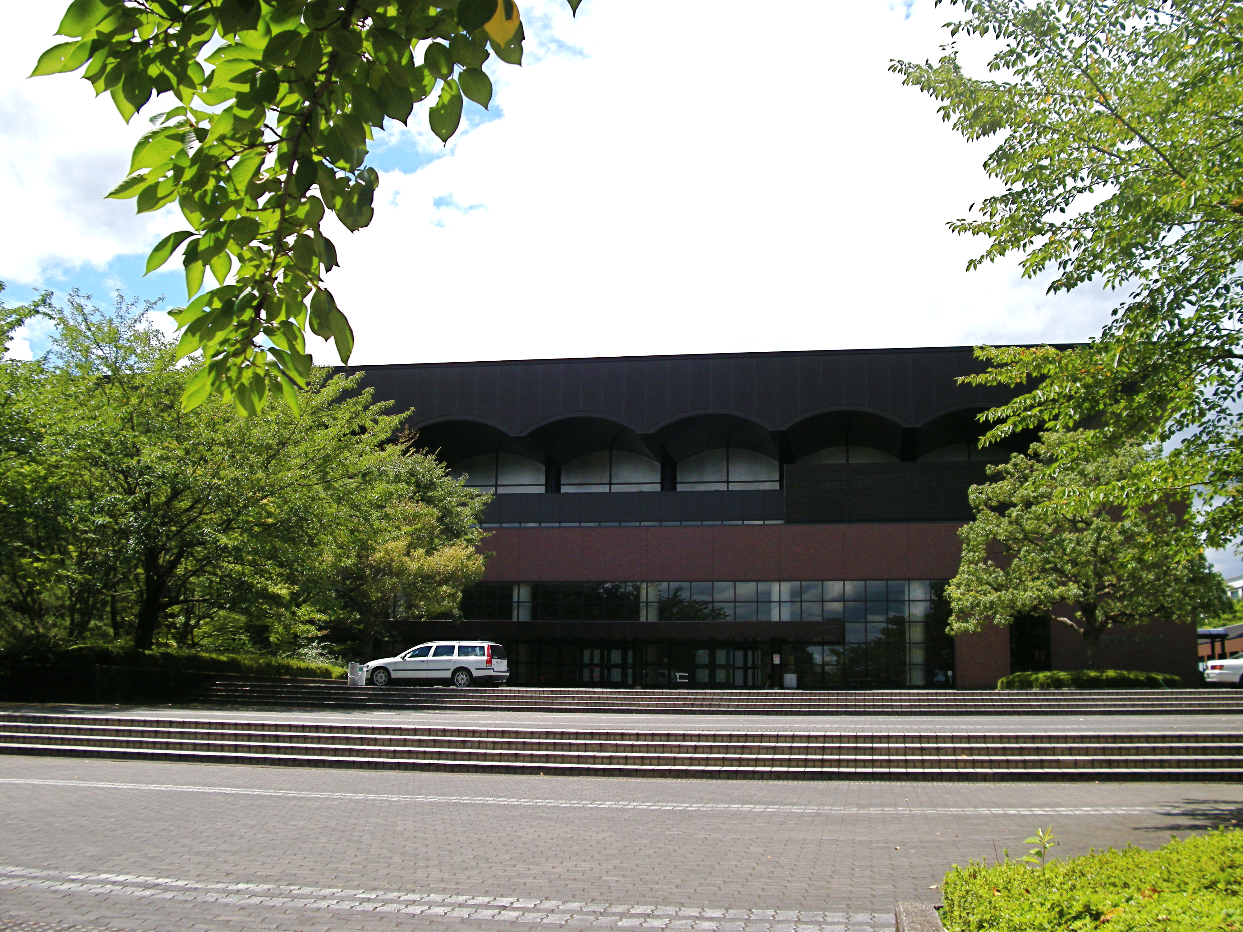 Davis Memorial Auditorium (Kyotanabe Campus, Doshisha University)